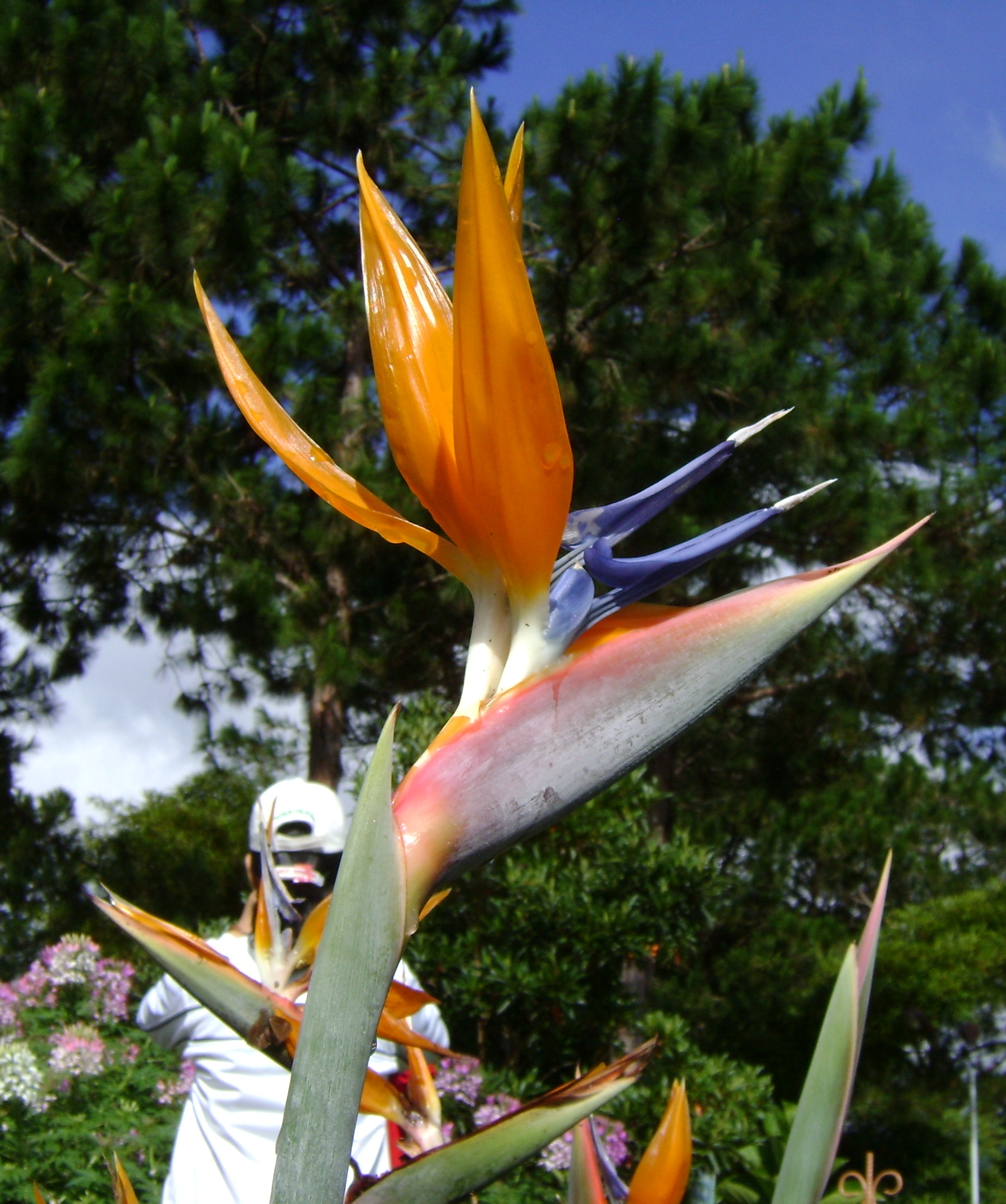 This is a Dalat's Strelitzia reginae (bird of paradise plant) photo which was taken in late July, 2008.